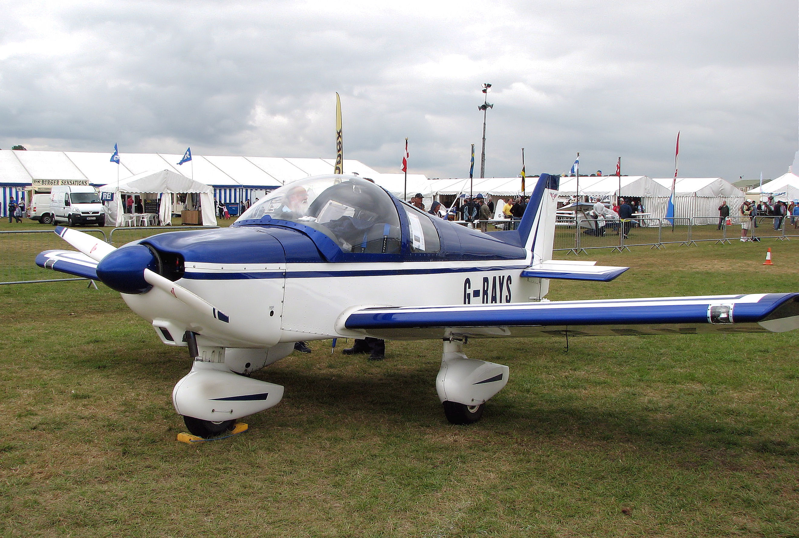 Zenair CH250 Zenith (G-RAYS) at a Popular Flying Association Rally at Kemble Airport, Gloucestershire, England.